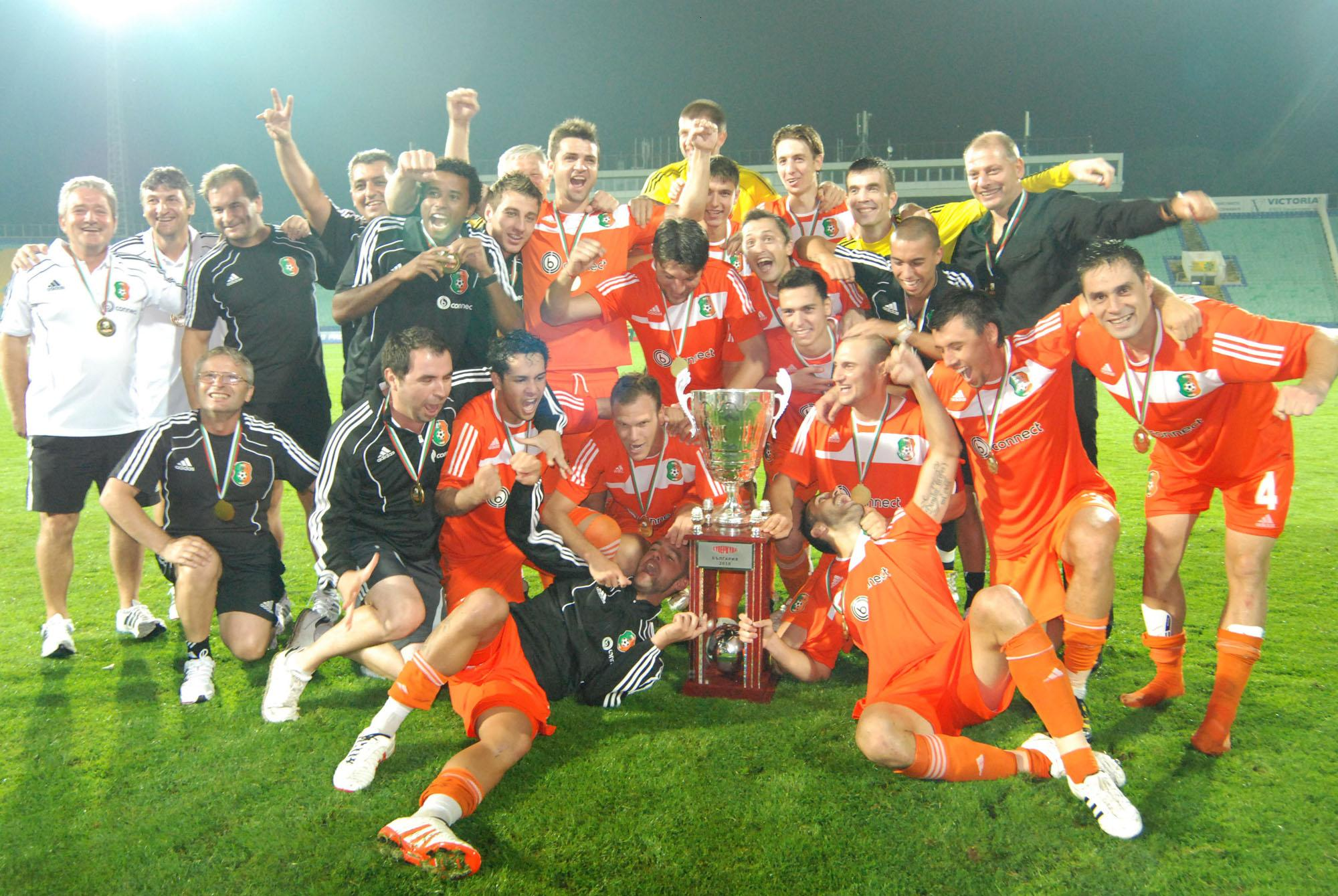 Litex Lovech - Bulgarian Supercup Winner 2010